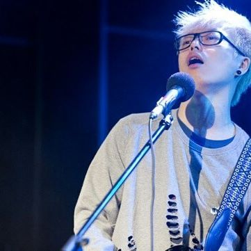 hahyun1